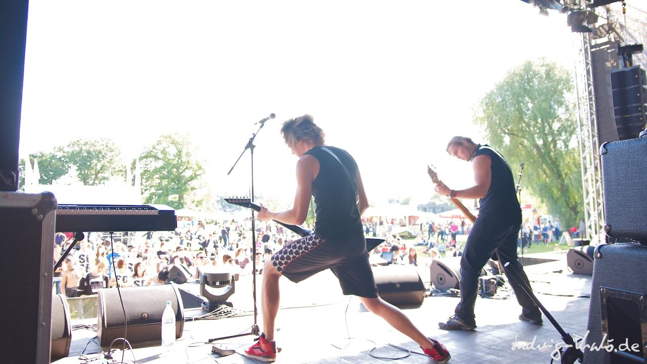 SonuVab!tch im Vorprogramm von Polarkreis 18